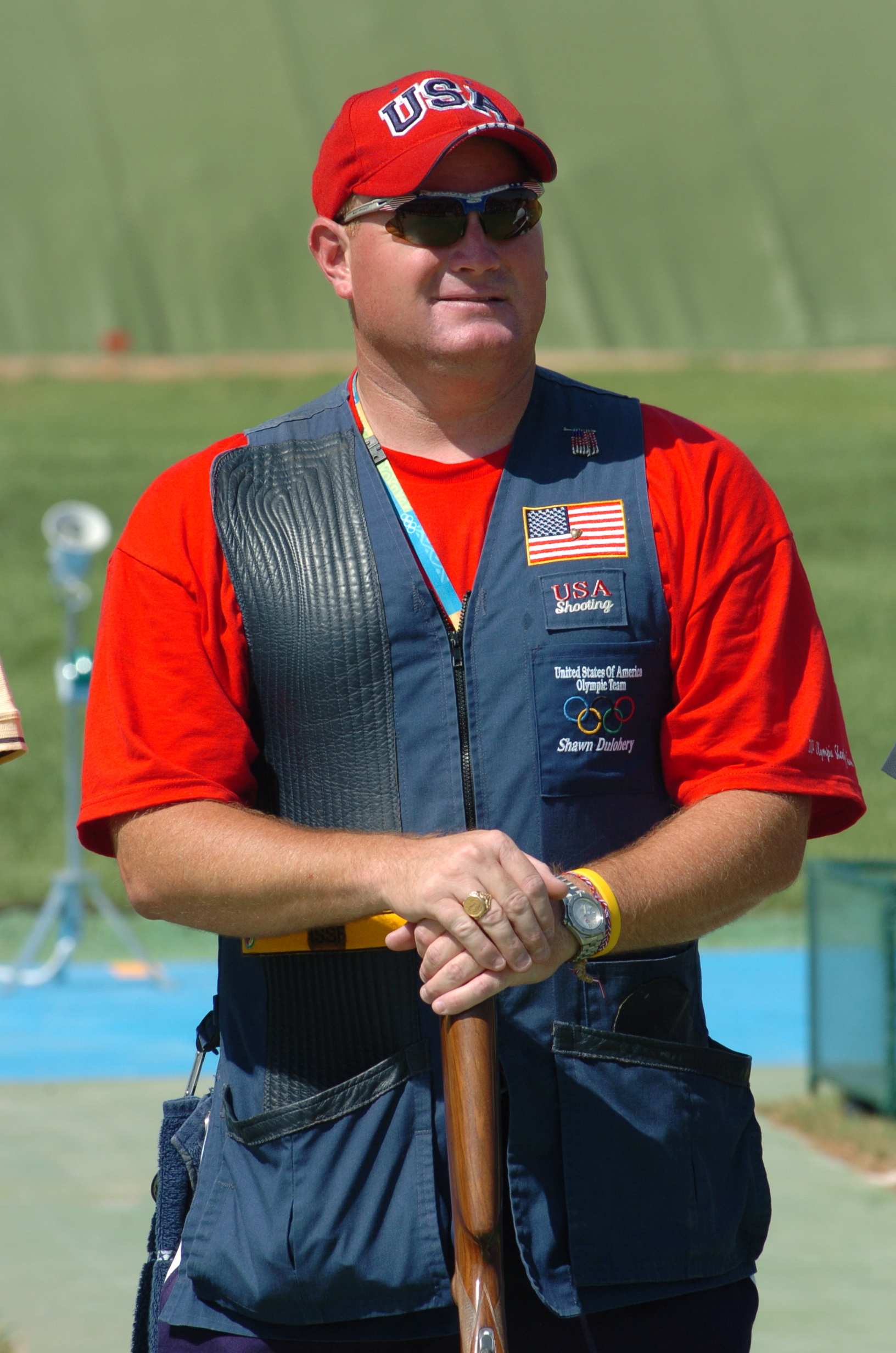 2004 Summer Olympics - Army World Class Athlete Program - FMWRC - U.S. Army - Official Image Archive - Athens Greece - XXVIII Olympiad